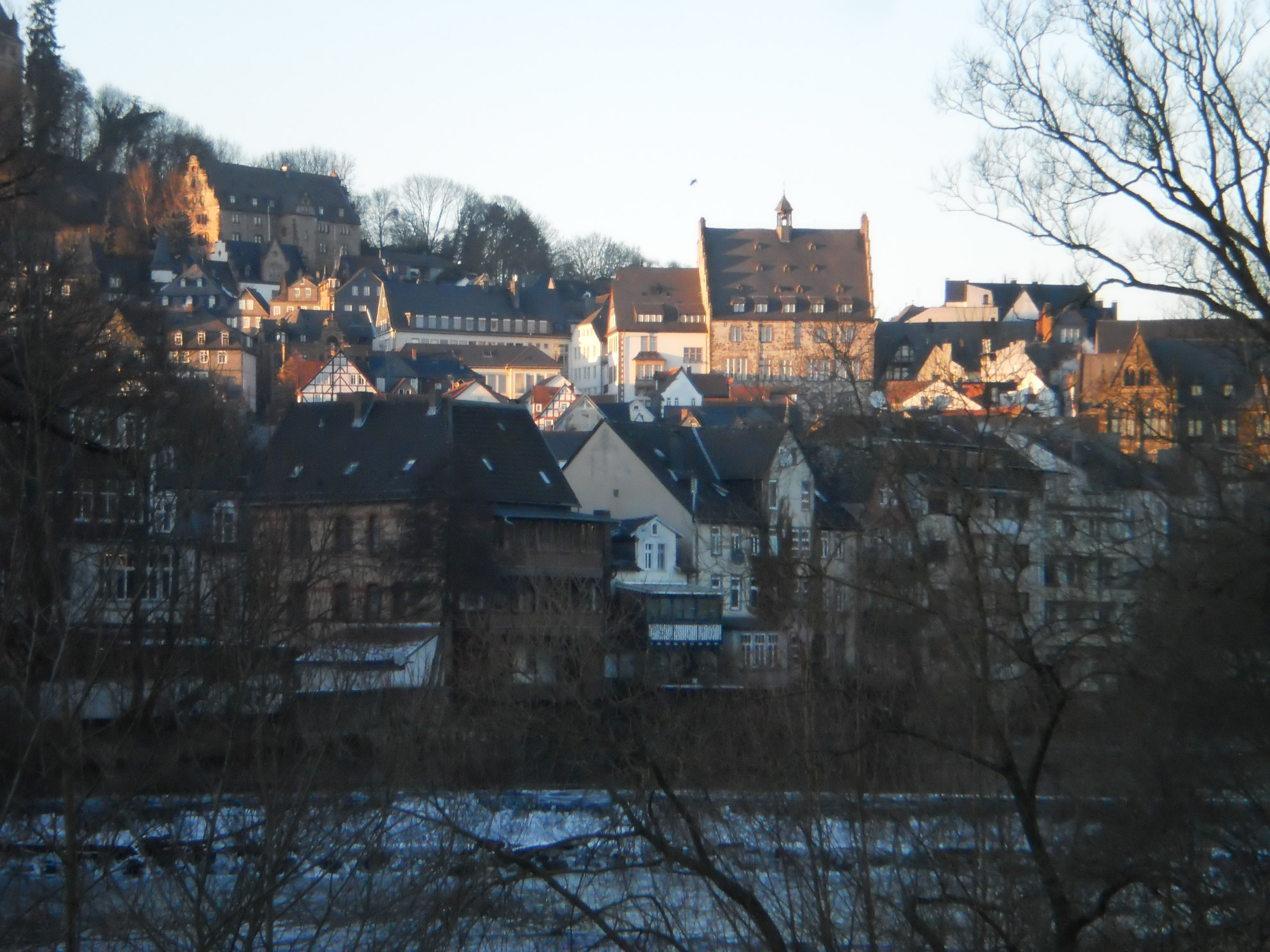 Old town (Oberstadt Marburg) only upper part in sun (castle, Kanzlei, town hall), from foot- and bicycle-bridge Hirsefeldsteg, trees in winter, January 2017-01-19.